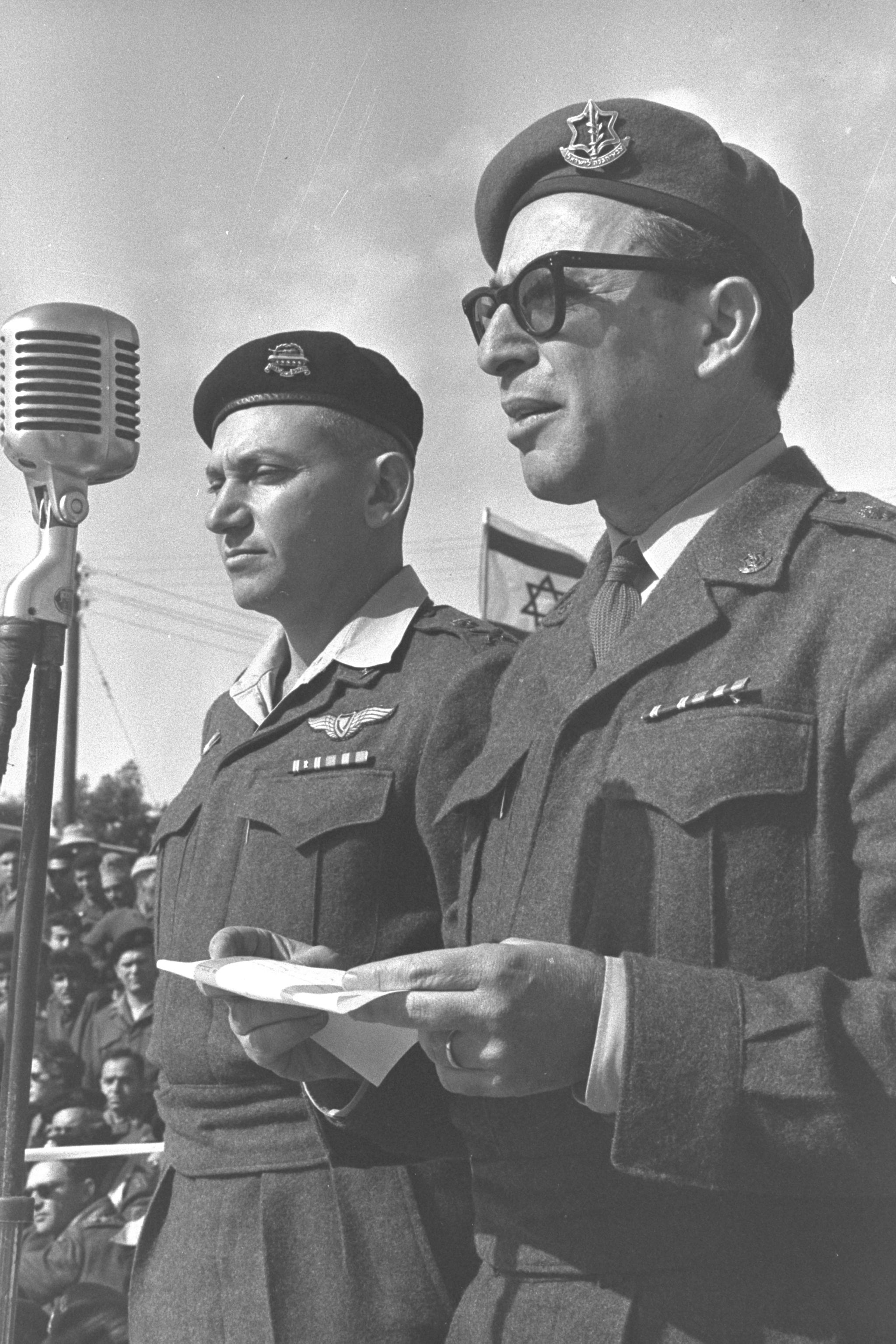 IDF Chief of Staff Zvi Zur and General Haim Bar-Lev